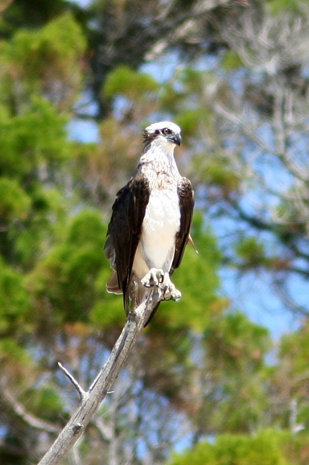 Australian Osprey, Pandion cristatus, Fraser Island, Australia